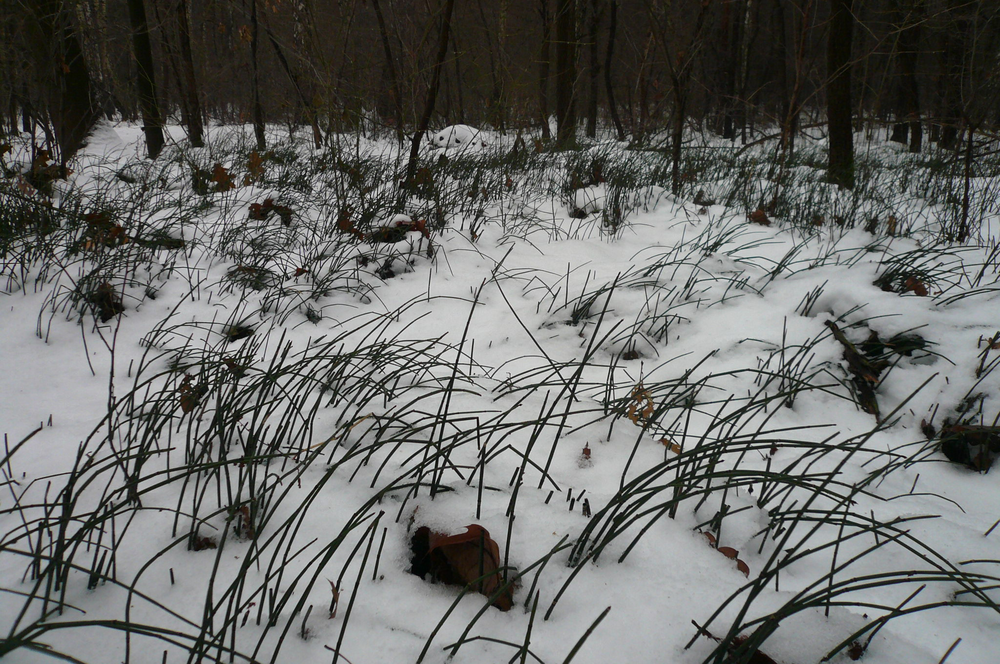 Equisetum hyemale in winter. The Forest of Bemowo near Warsaw (Poland)